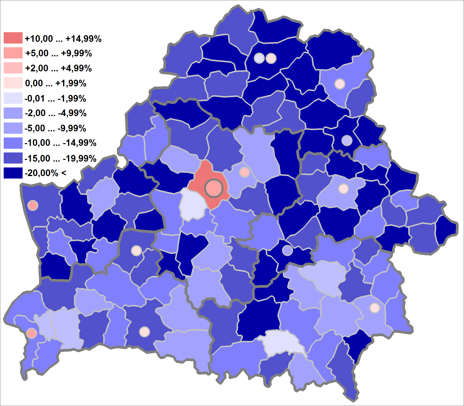 Belarus population intercensal dynamic 1999-2009 (2-d level divisions)